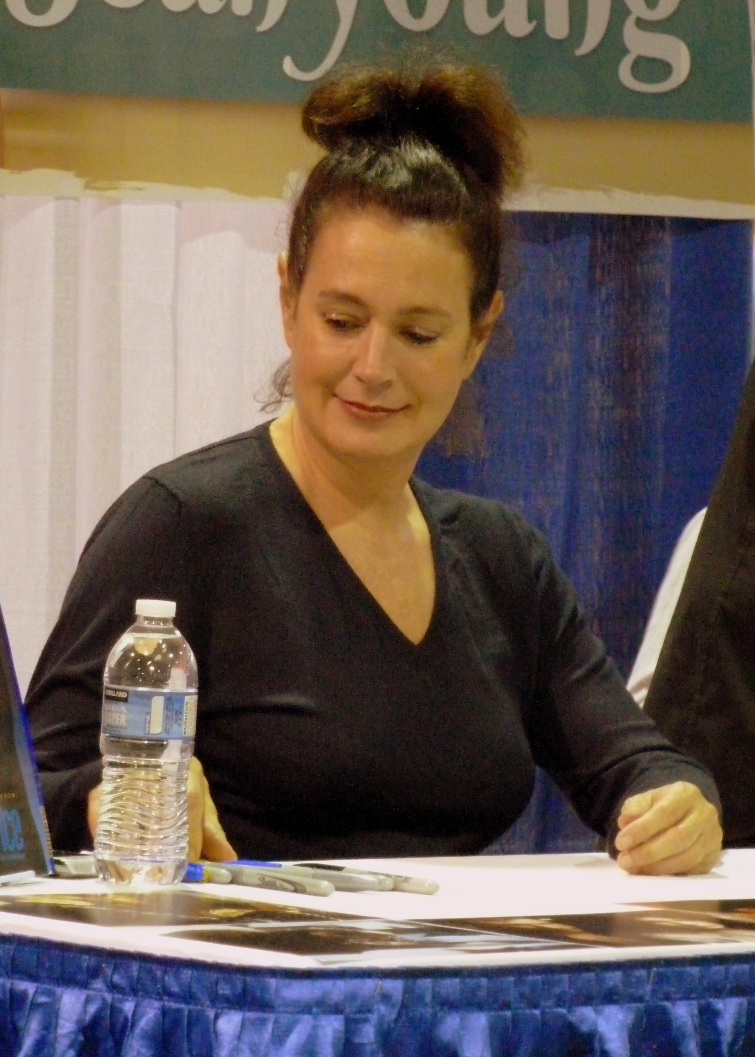 Sean Young 02 Guests at Wizard World Chicago 2012.